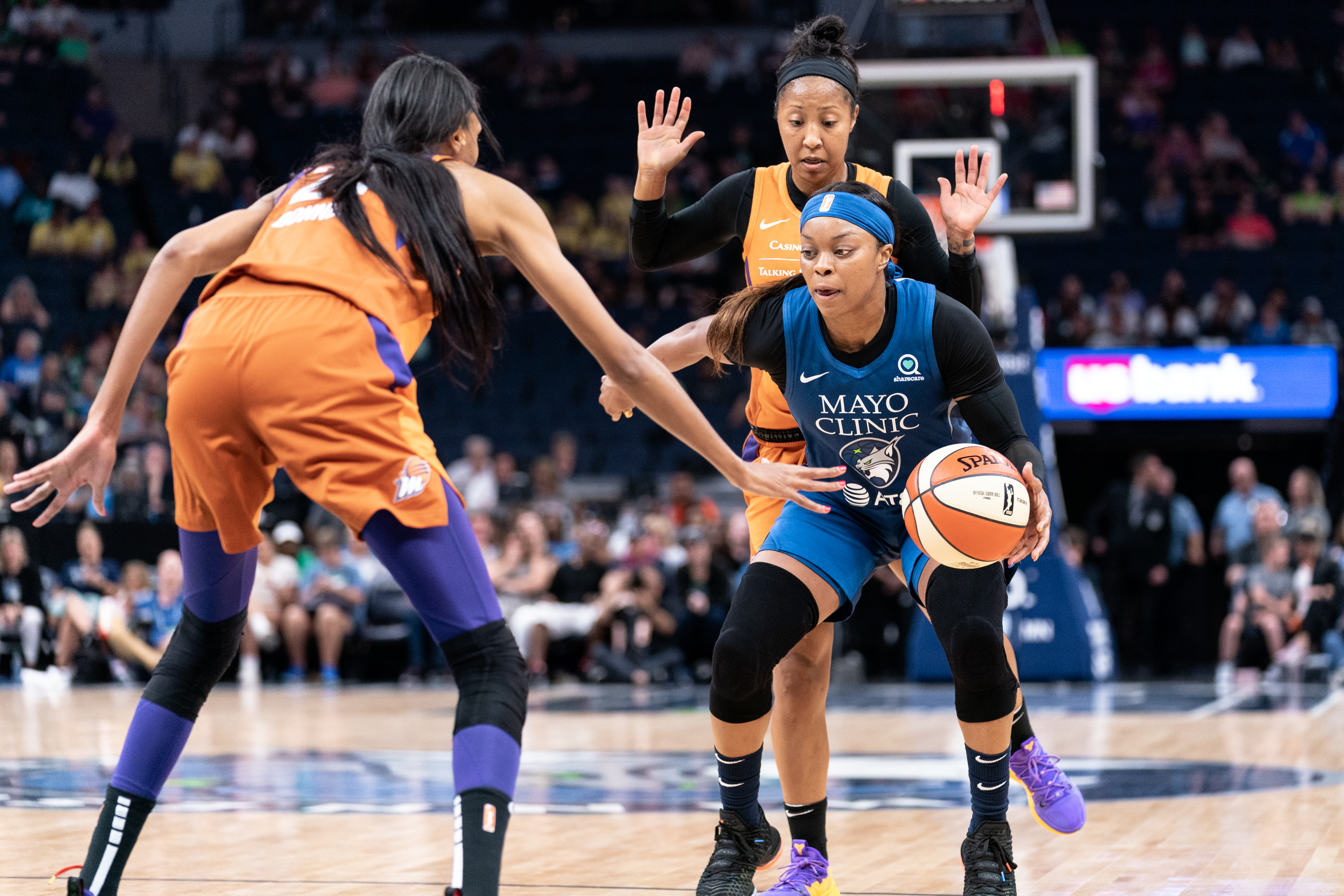 Minnesota Lynx vs Phoenix Mercury at Target Center in Minneapolis, MN on July 14 2019; the Lynx won the game 75-62.